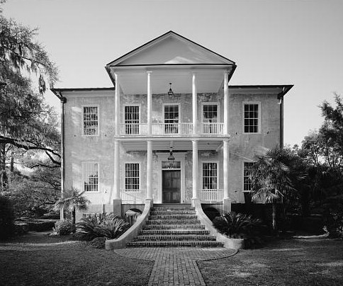 Elizabeth Barnwell Gough House, 705 Washington Street (Beaufort,South Carolina) (cropped)